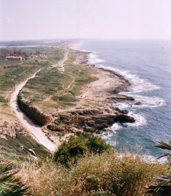 Israel's Northern Coast Line, as seen from Rosh Hanikra